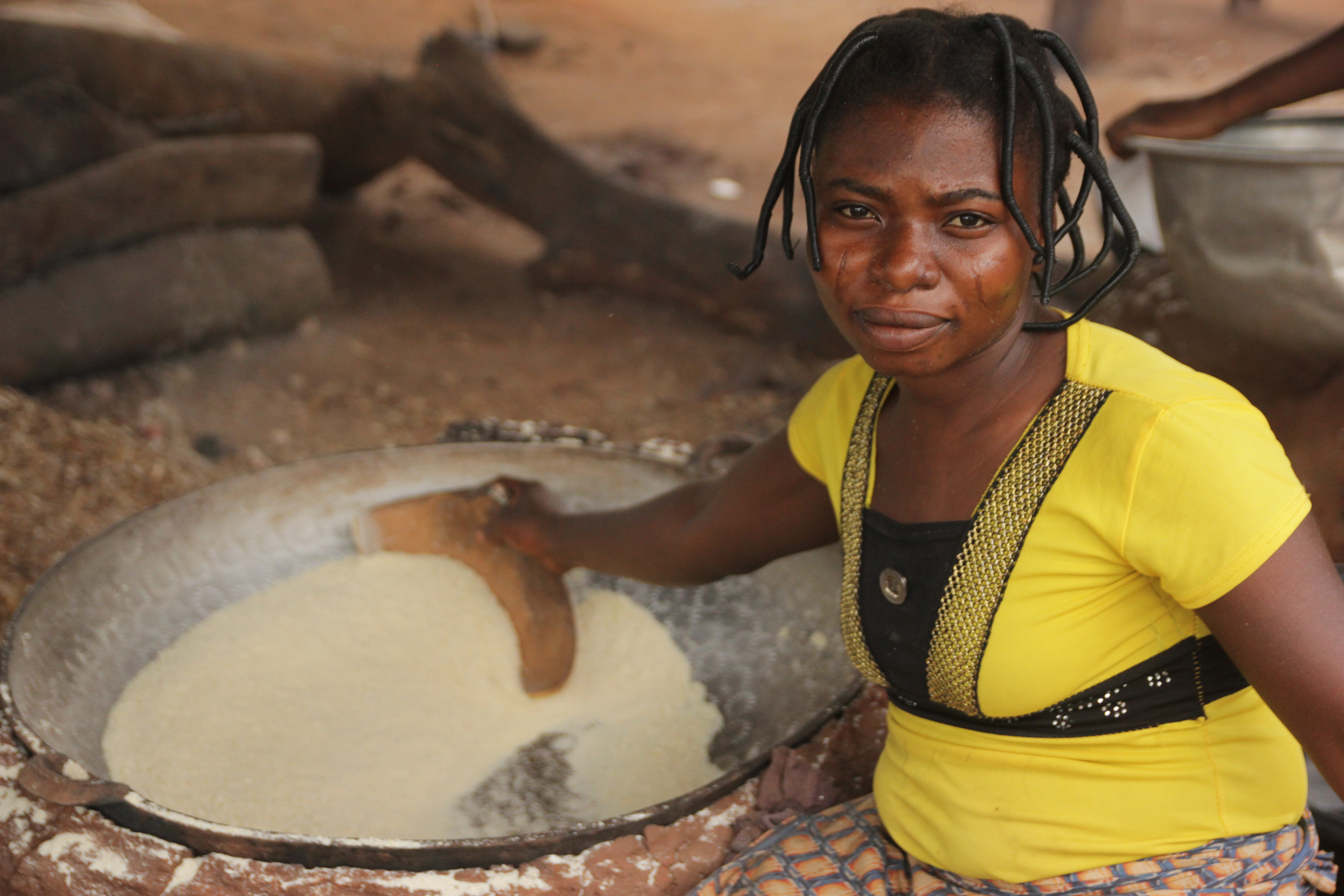 When making gari, the women have to press and dry the cassava, then grind it into a course powder, sift it, and brown it over coals.